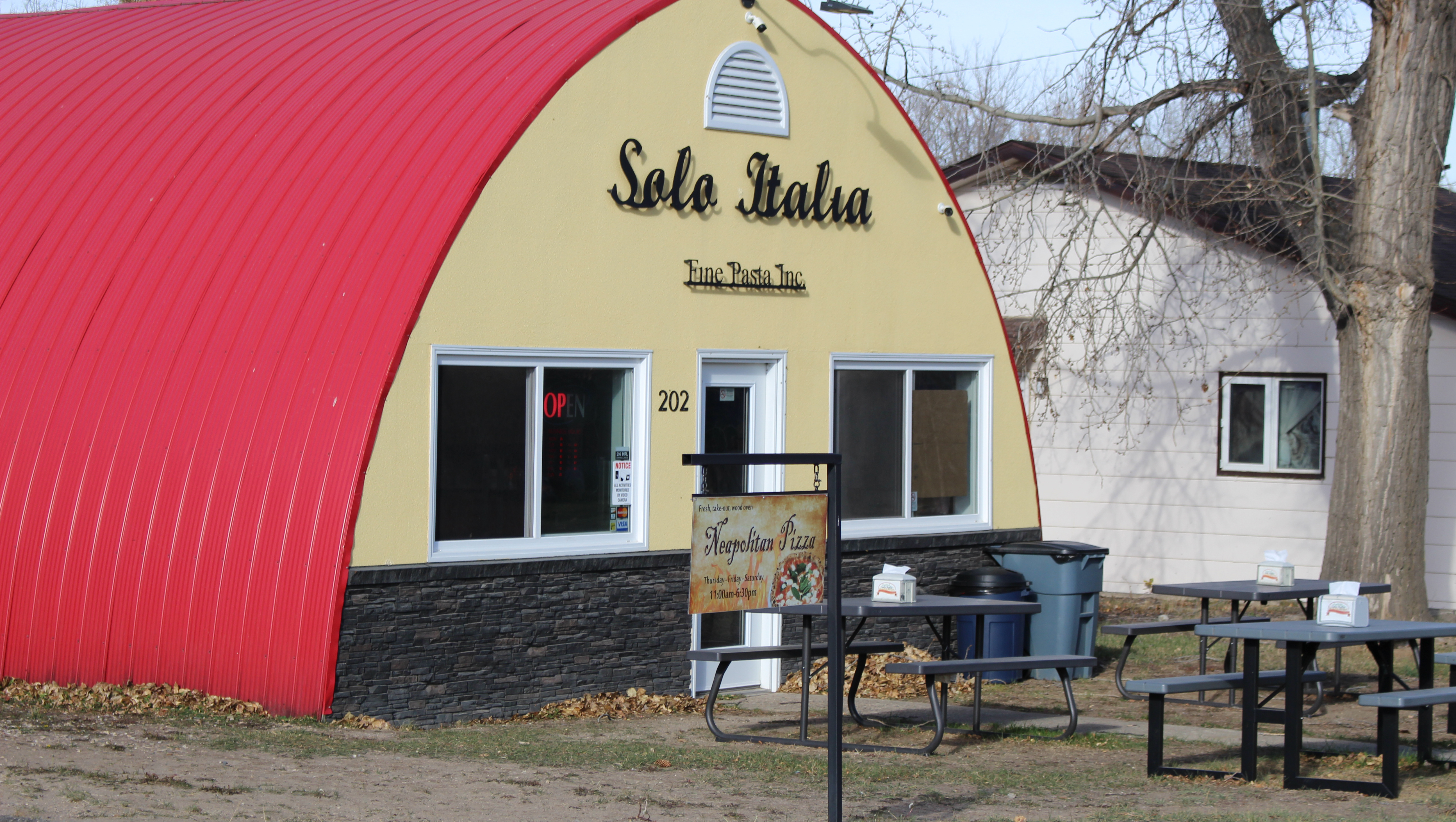 Solo Italia Fine Pasta Inc. in Ogema, Saskatchewan.